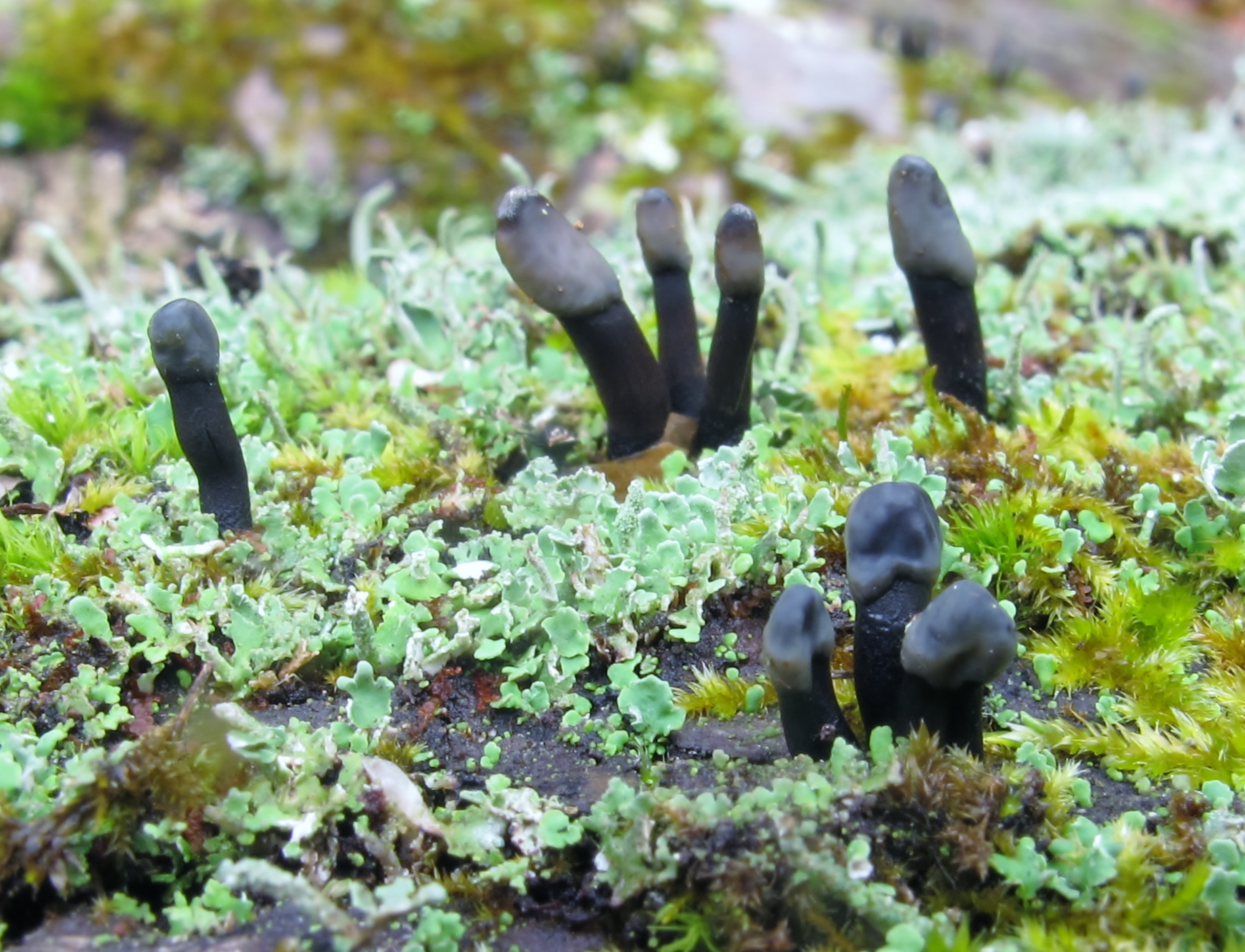 Holwaya mucida (Schulzer) Korf & Abawi Image location: East Palestine, Ohio, USA Recognized by sight For more information about this, see the observation page at Mushroom Observer.